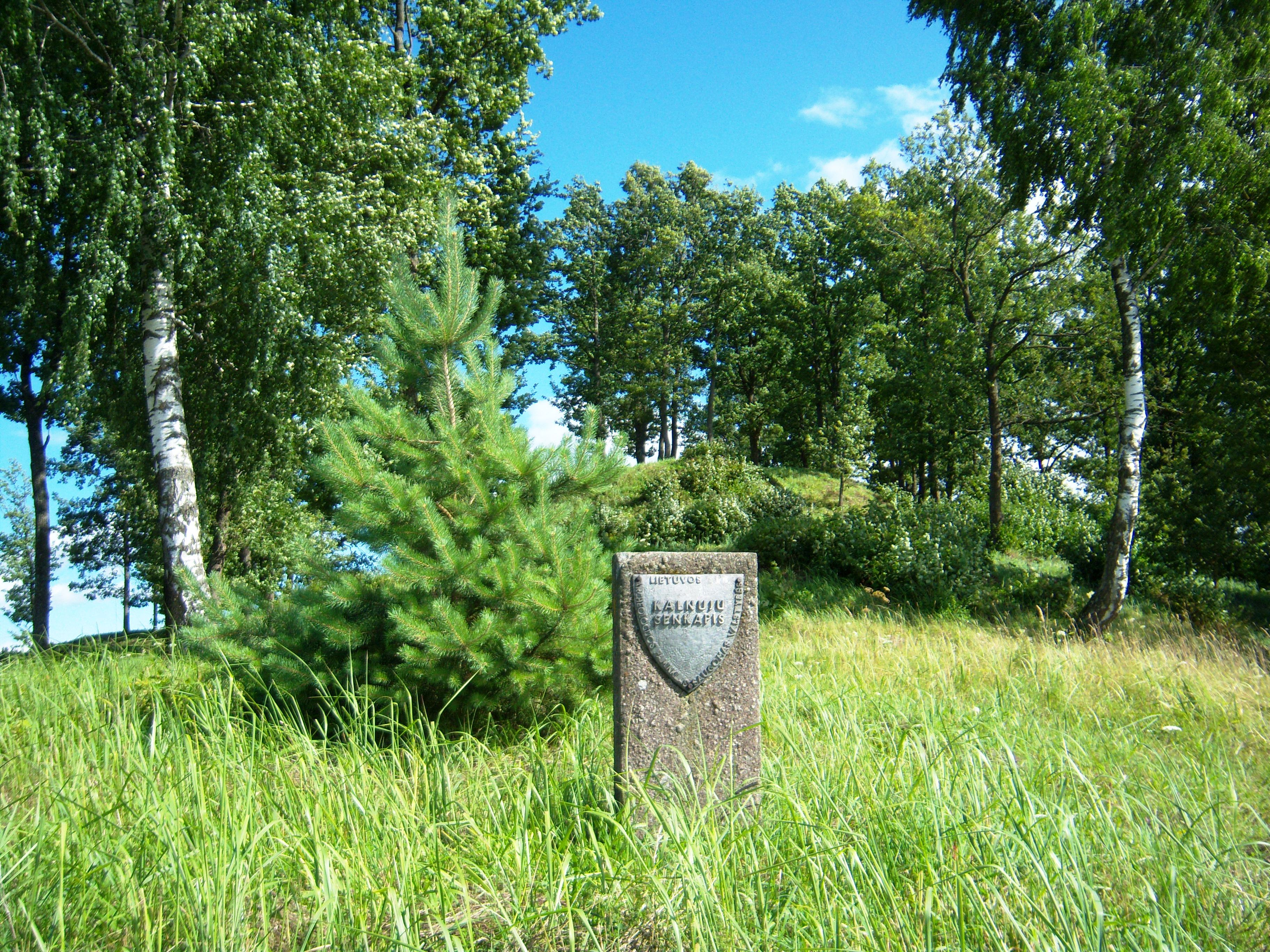 Kalnujai (Palendriai) Hillfort, Raseiniai District, Lithuania